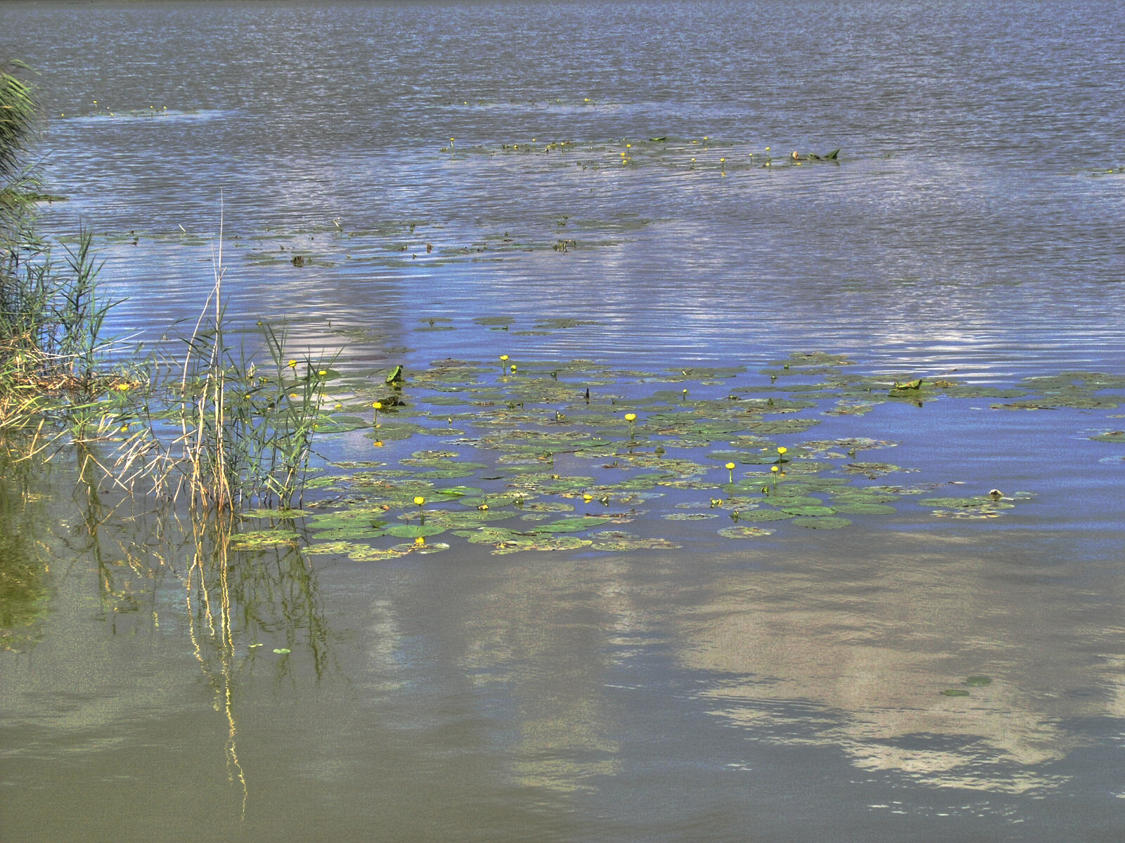 Federsee nature reserve at Bad Buchau, near Biberach an der Riss in South-West Germany